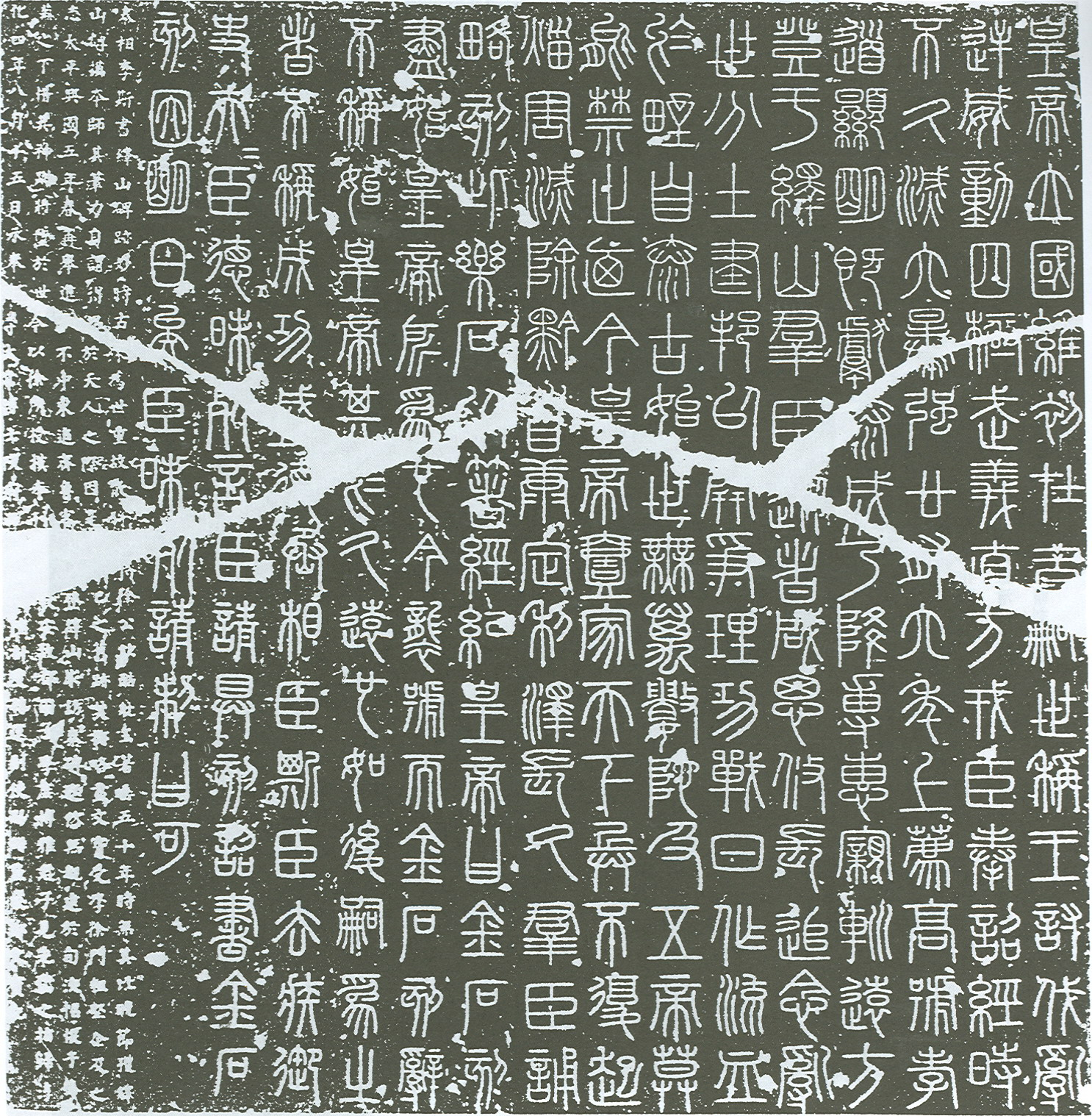 A replica of Yishan Keshi